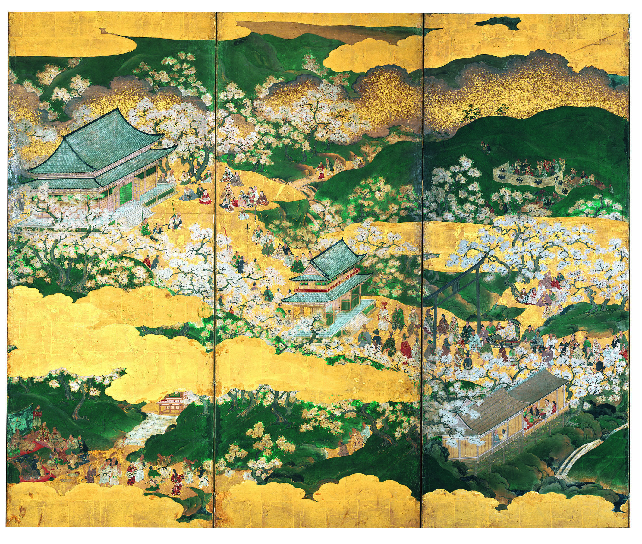 "Flower Viewing at Yoshino" part of a pair of six-panel folding screens by an unknown artist HOSOMI MUSEUM, KYOTO